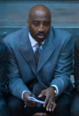 Stanford assistant basketball coach Rodney Tention at Stanford's game against Oregon State in Corvallis, OR, Feb. 20, 2010.